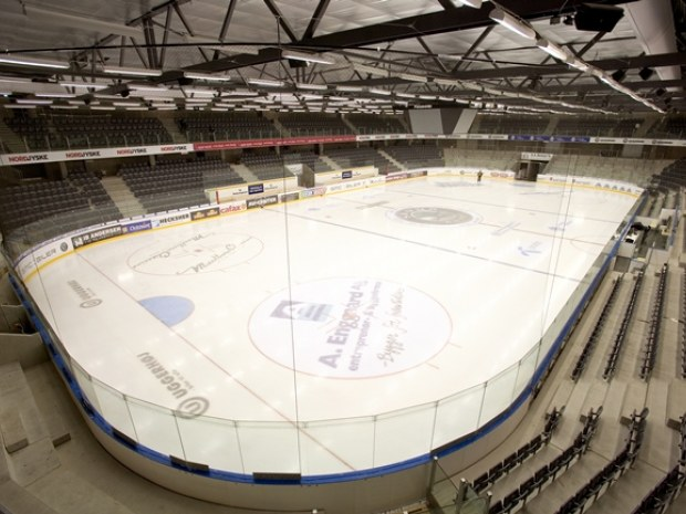 Gigantium isarena